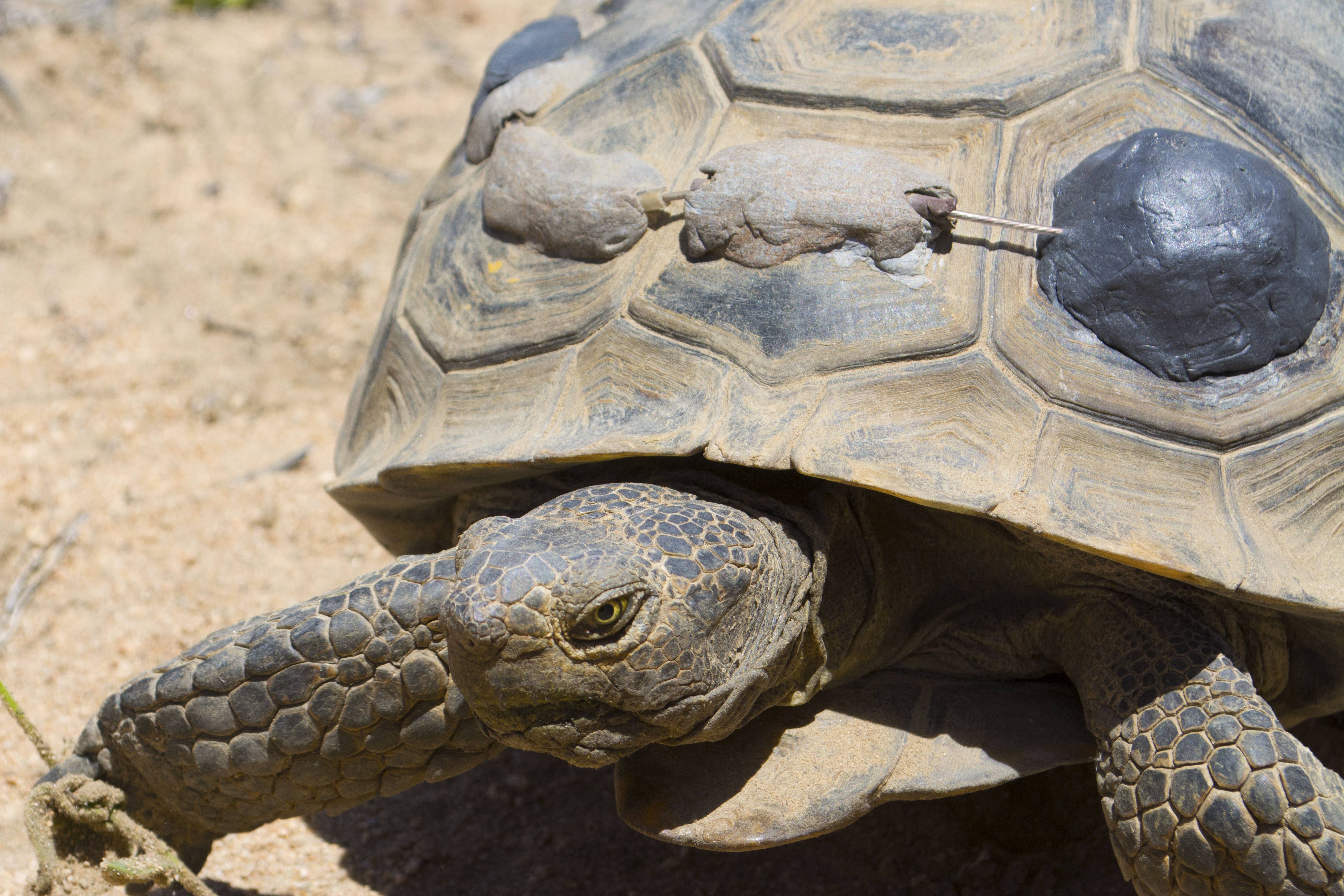 NPS/Hannah Schwalbe Biologists at Joshua Tree National Park track about 20 desert tortoises to assess their health and the health of the population. Tortoise research is completed as quickly as possible to minimize the amount of stress to the individual tortoise. Rangers only touch tortoises for research purposes or to safely move them if they are on a road. The vast majority of tortoises in Joshua Tree are never touched by humans as the park is their home. We ask that visitors maintain a respectful distance from tortoises and do not try to feed, pet or pick them up.